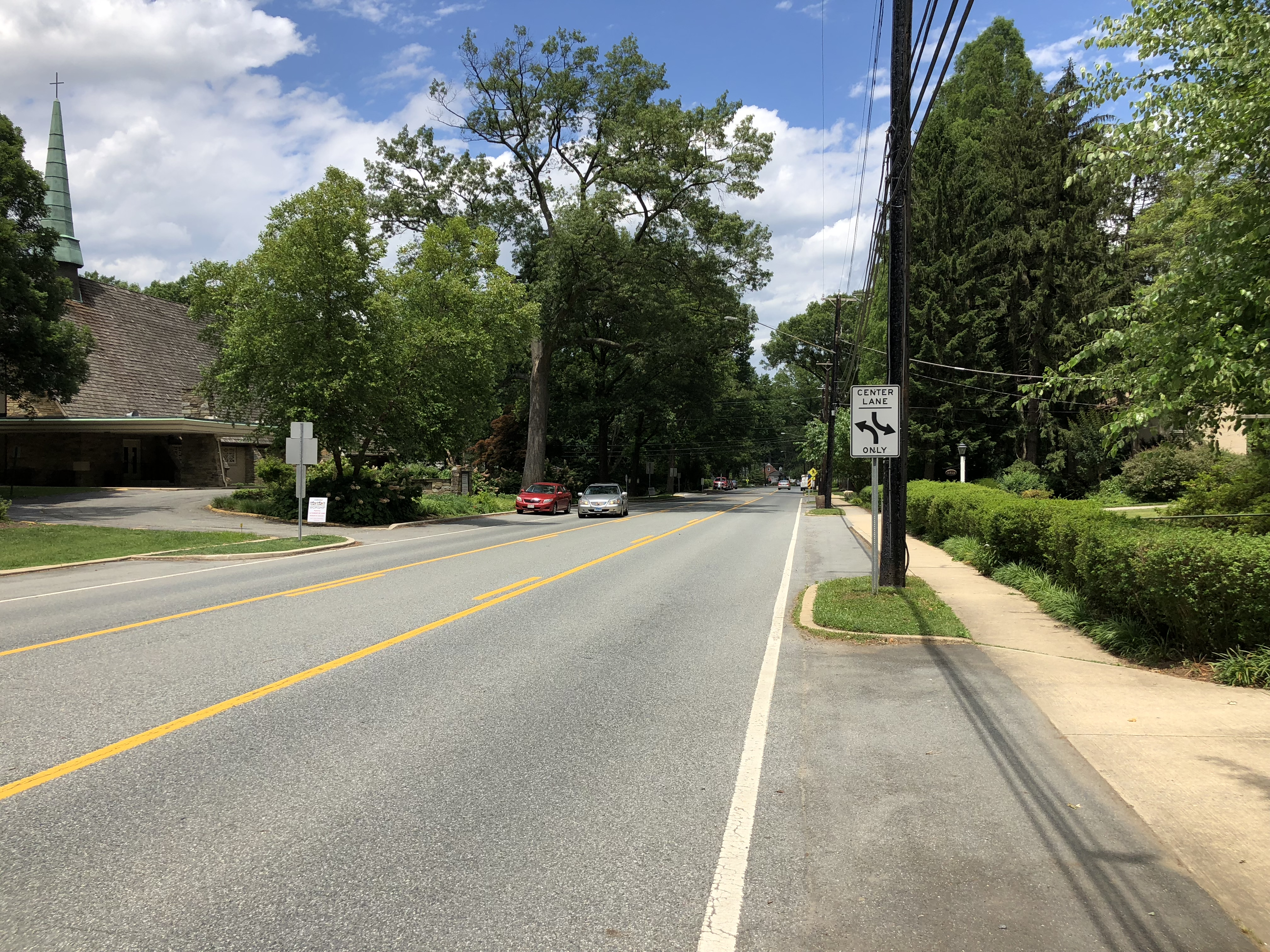 View north along Kensington Parkway at Montrose Drive in North Chevy Chase, Montgomery County, Maryland